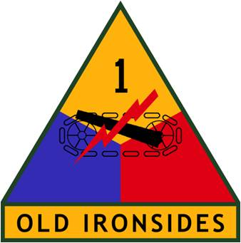 1ad CREST